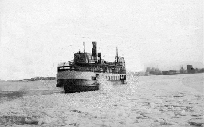 An International Transit Company ferry crosses the St. Mary's River between the two Sault Sainte Marie.